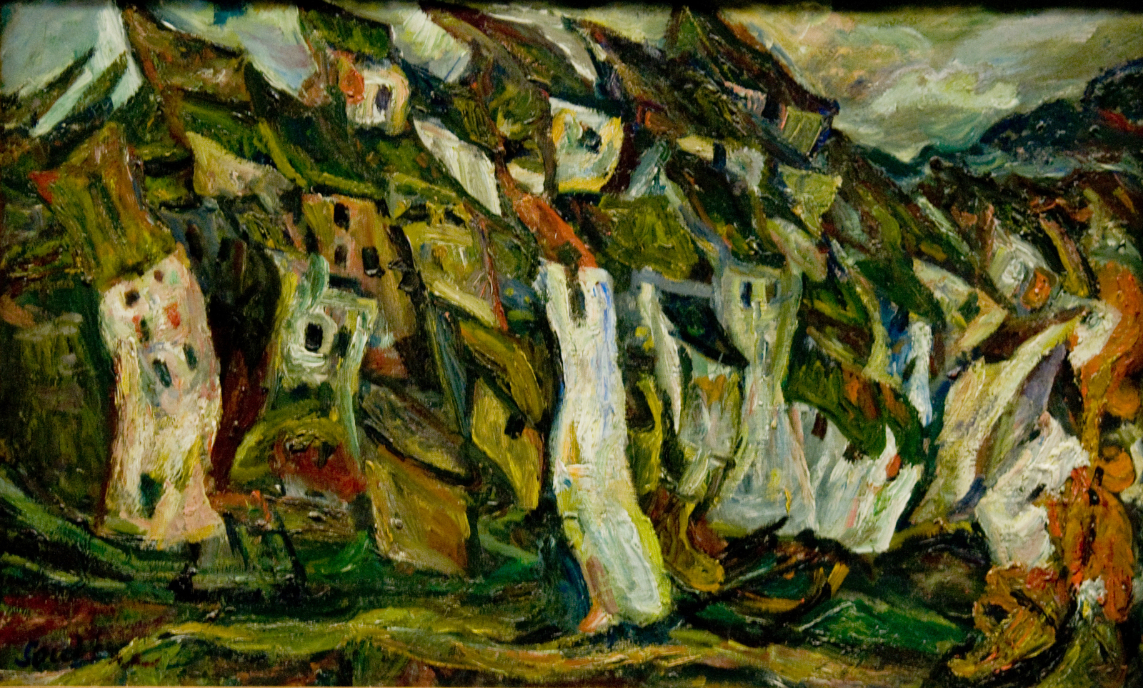 Chaim Soutine (1893–1943), "The Houses" (Les Maisons), oil on canvas, 1921, Musée de l'Orangerie, Paris